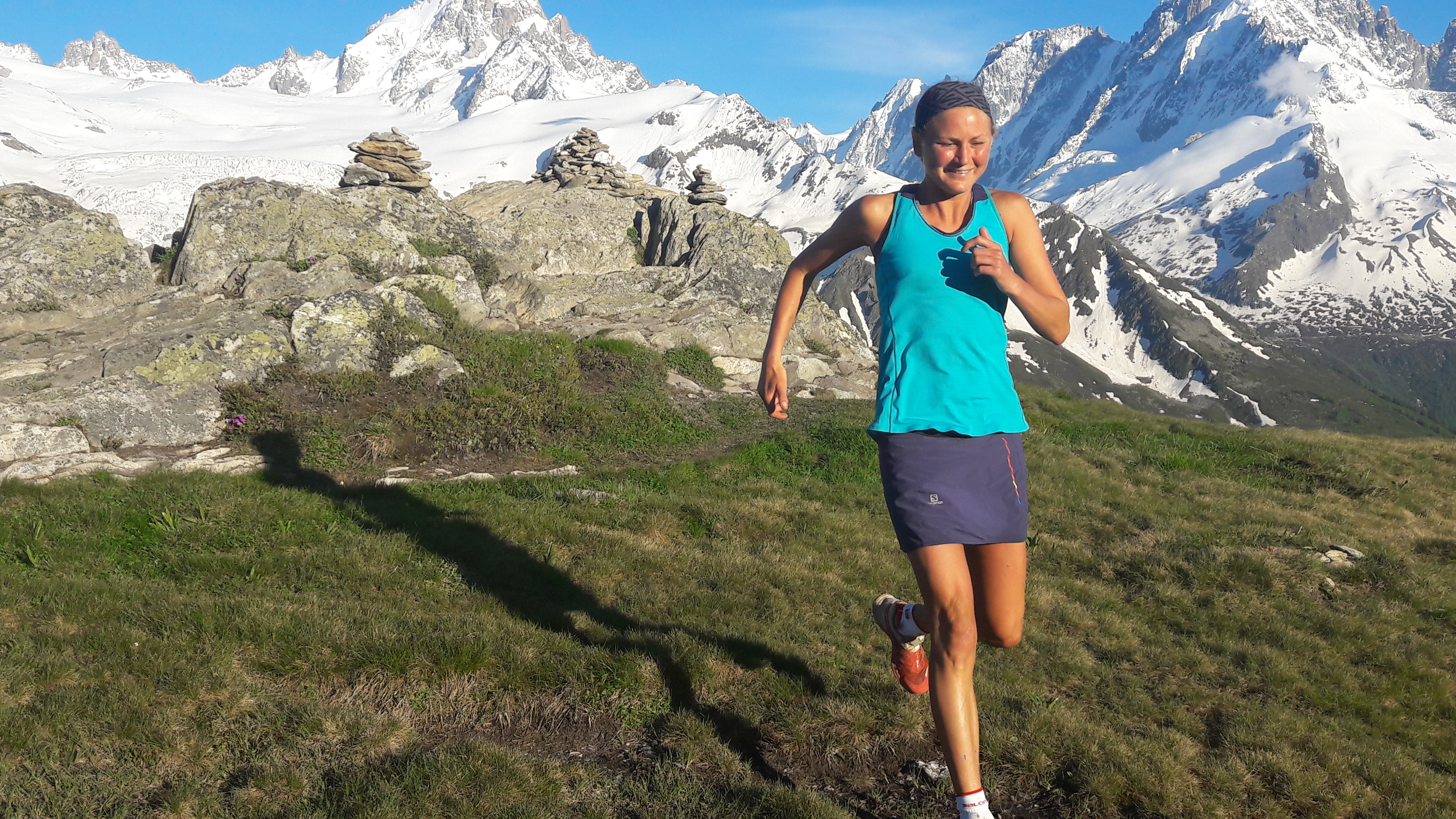 Ida Nilsson, Chamonix 2016, Before Mt. Blanc Marathon